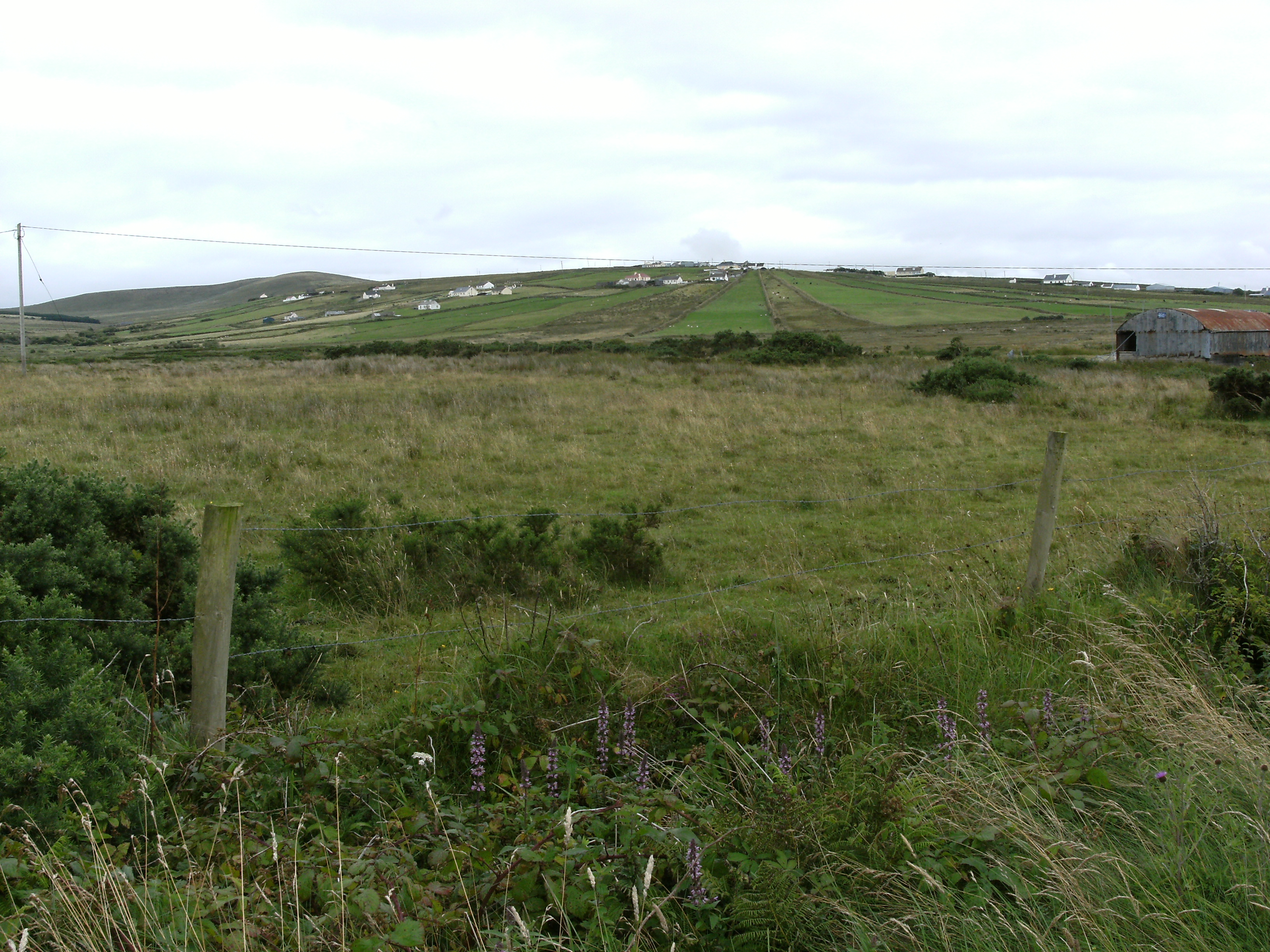 Rundale Clachan style village cluster on the hillside, Inver (Inbhear), Erris, County Mayo, Ireland.